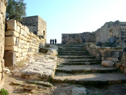 Umm Qais, Jordan (Dec 2004) (Picture taken and submitted by the copyright holder)